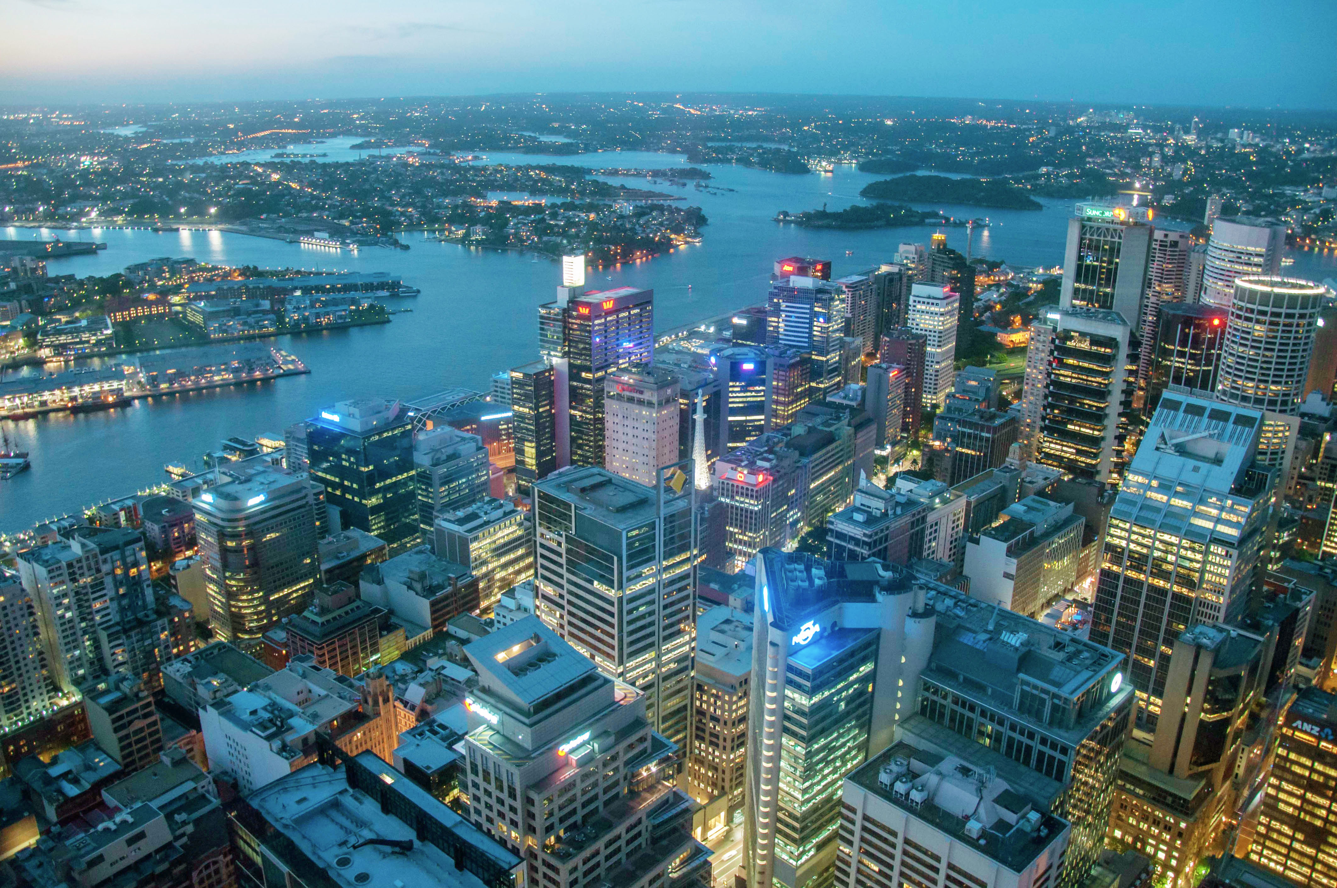 Looking down on the eastern Sydney CBD